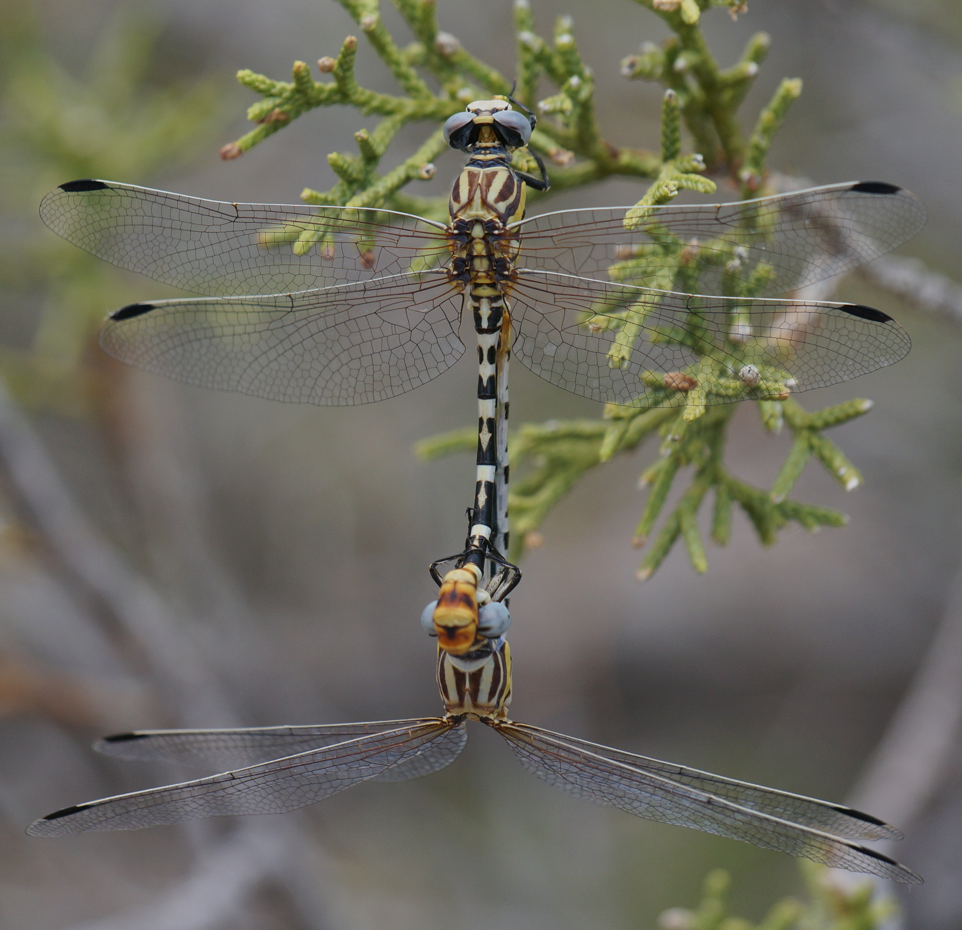 Mating wheel